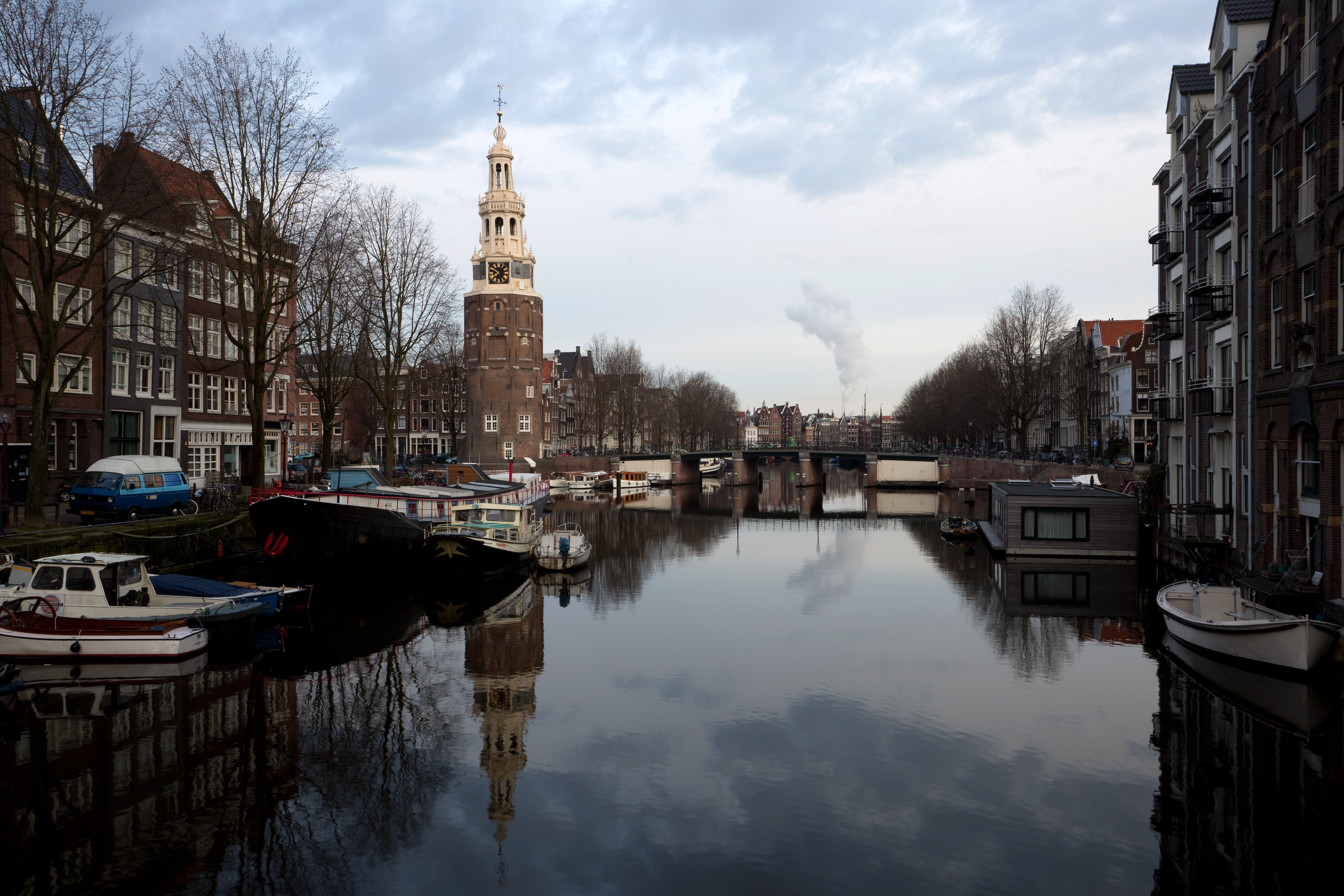 One of Amsterdam's many canals, with the Montelbaanstoren prominently in sight.